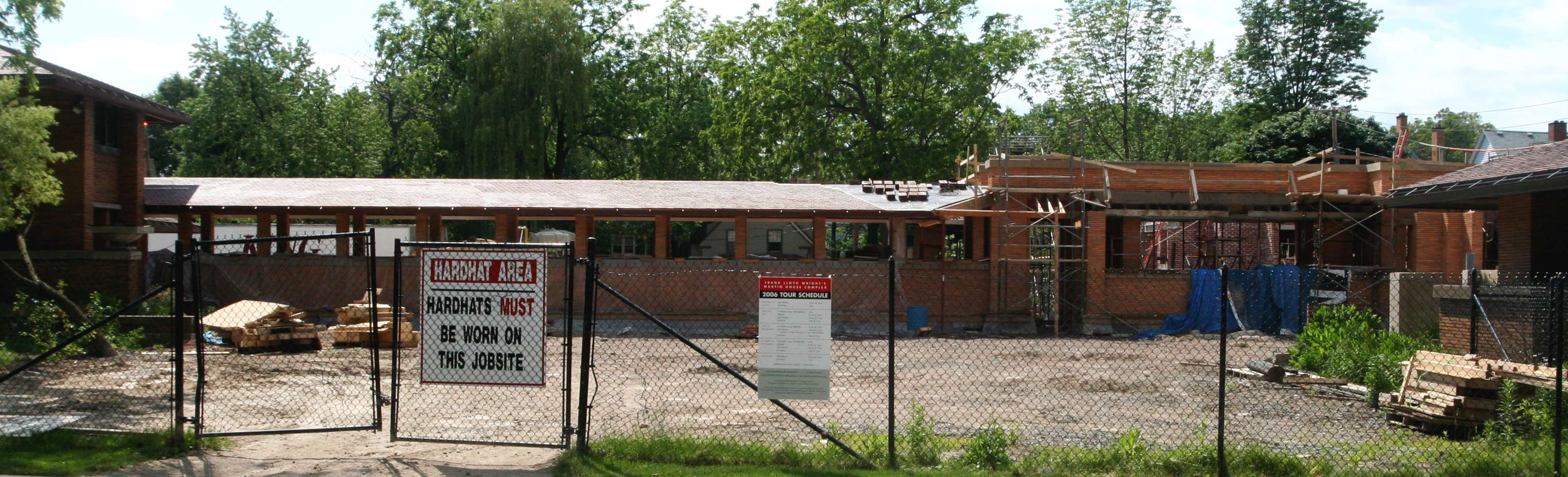 The Pergola of Frank Lloyd Wright's Darwin D. Martin House (Buffalo, NY), being reconstructed in 2006.